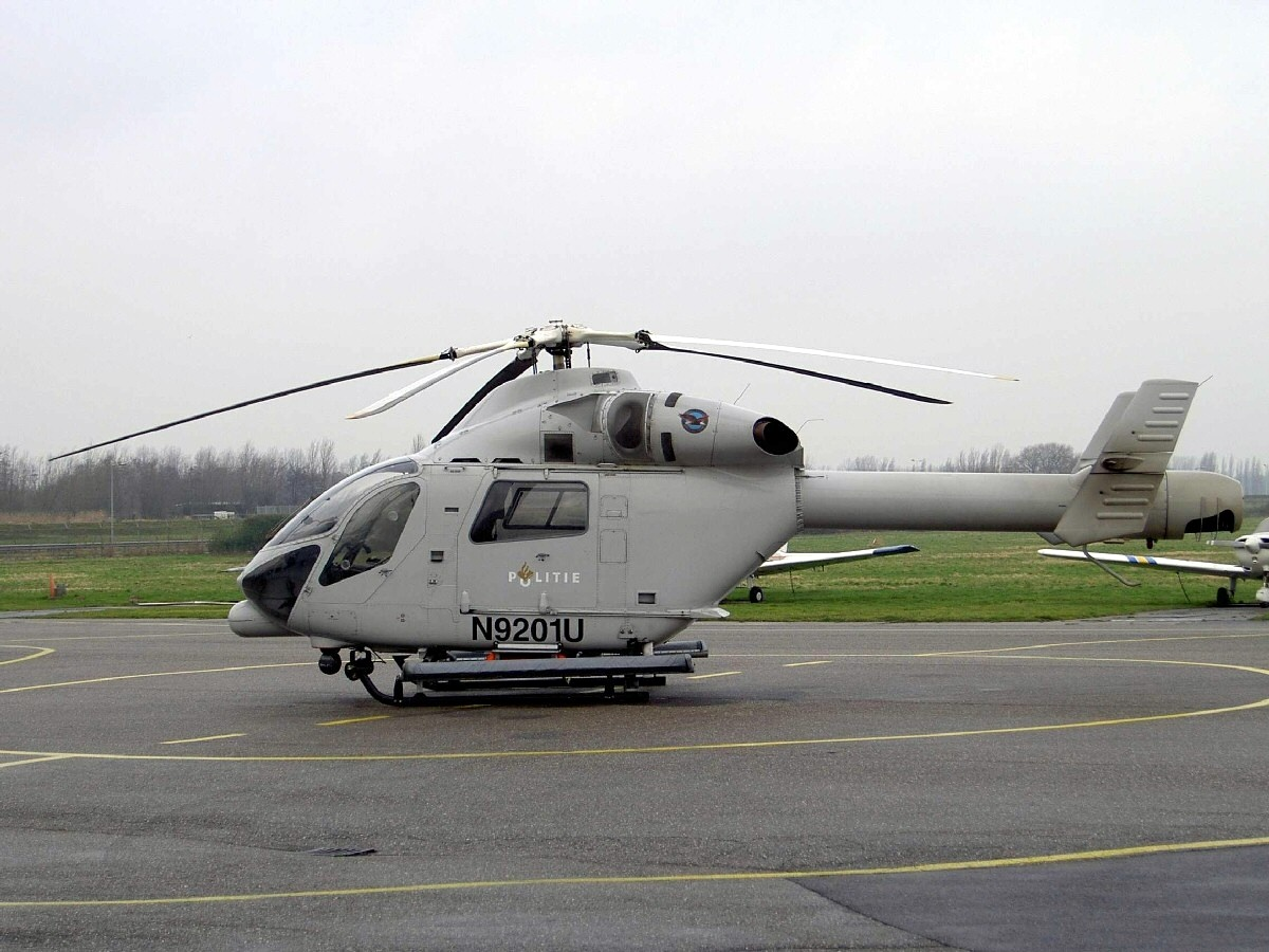 Photographed at Rotterdam The Hague Airport.